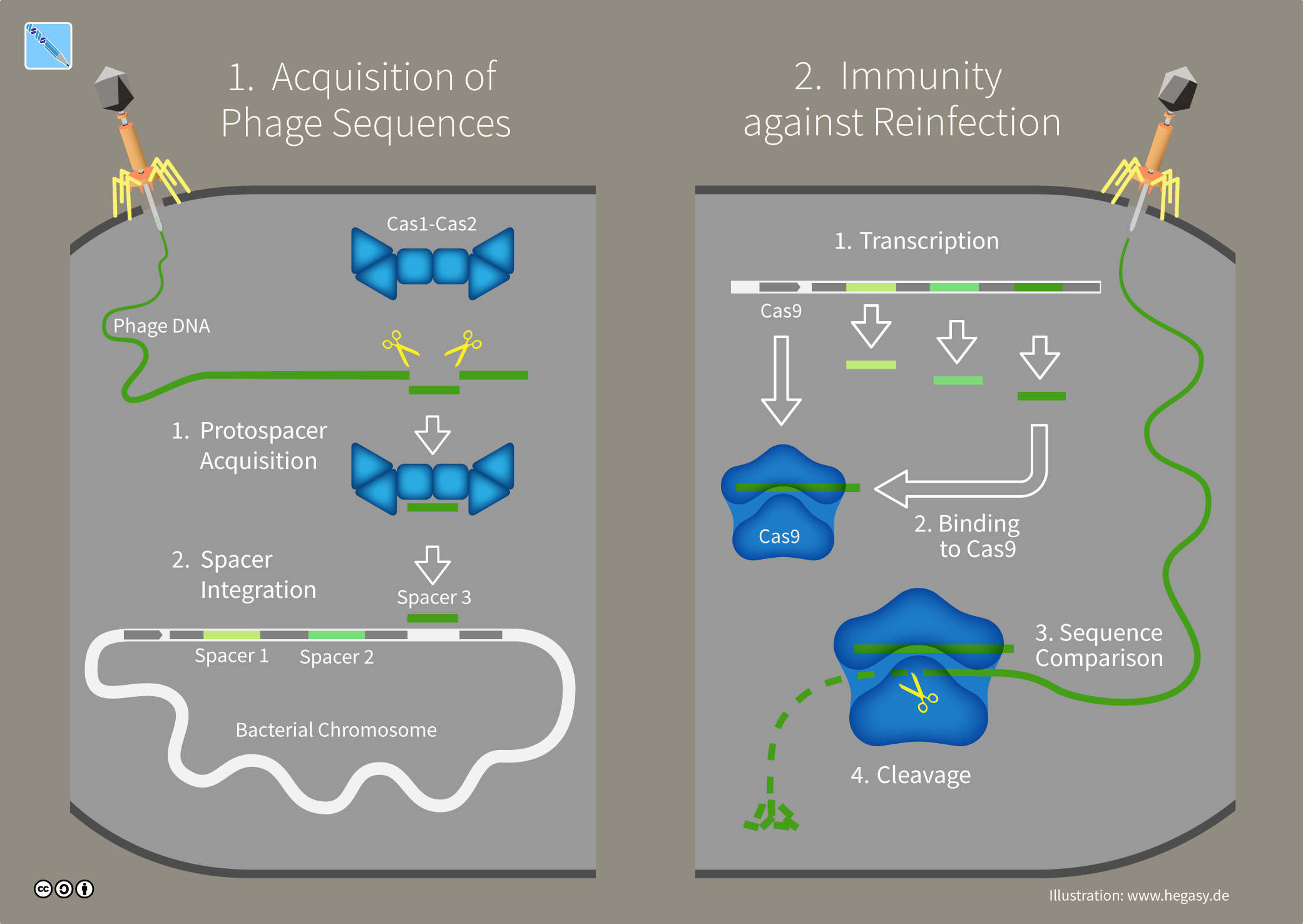 CRISPR-Cas9 Confers Adaptive Immunity. Left Panel: After a phage has injected its DNA into the bacterial cytoplasm, a protein complex forms consisting of Cas1 and Cas2. A sample sequence, termed protospacer, is acquired from the phage DNA by the Cas1-Cas2 complex (1). This sequence is then integrated into the CRISPR genetic locus (2). The sequence is now called a spacer. Several spacers from earlier contacts with phages are stored in the CRISPR genetic locus. Right Panel: Spacer sequences are transcribed as RNA, and Cas9 protein is synthesized (1). RNA binds to Cas9 to form a surveillance and interference complex (2). The complex then scans intracellular DNA for matching sequences (3). If a matching phage sequence is found, Cas9 destroys the DNA by cleavage (4).